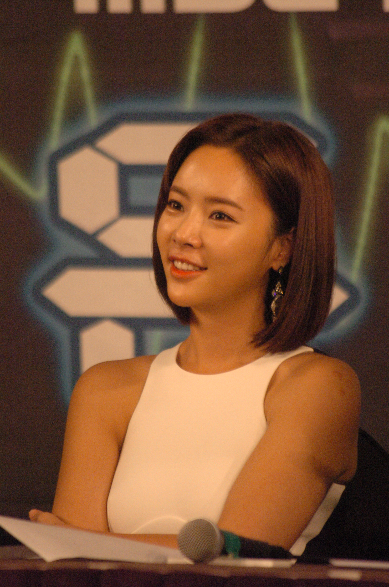 Hwang Jung-eun on the Golden Time production presentation, July 2 2012